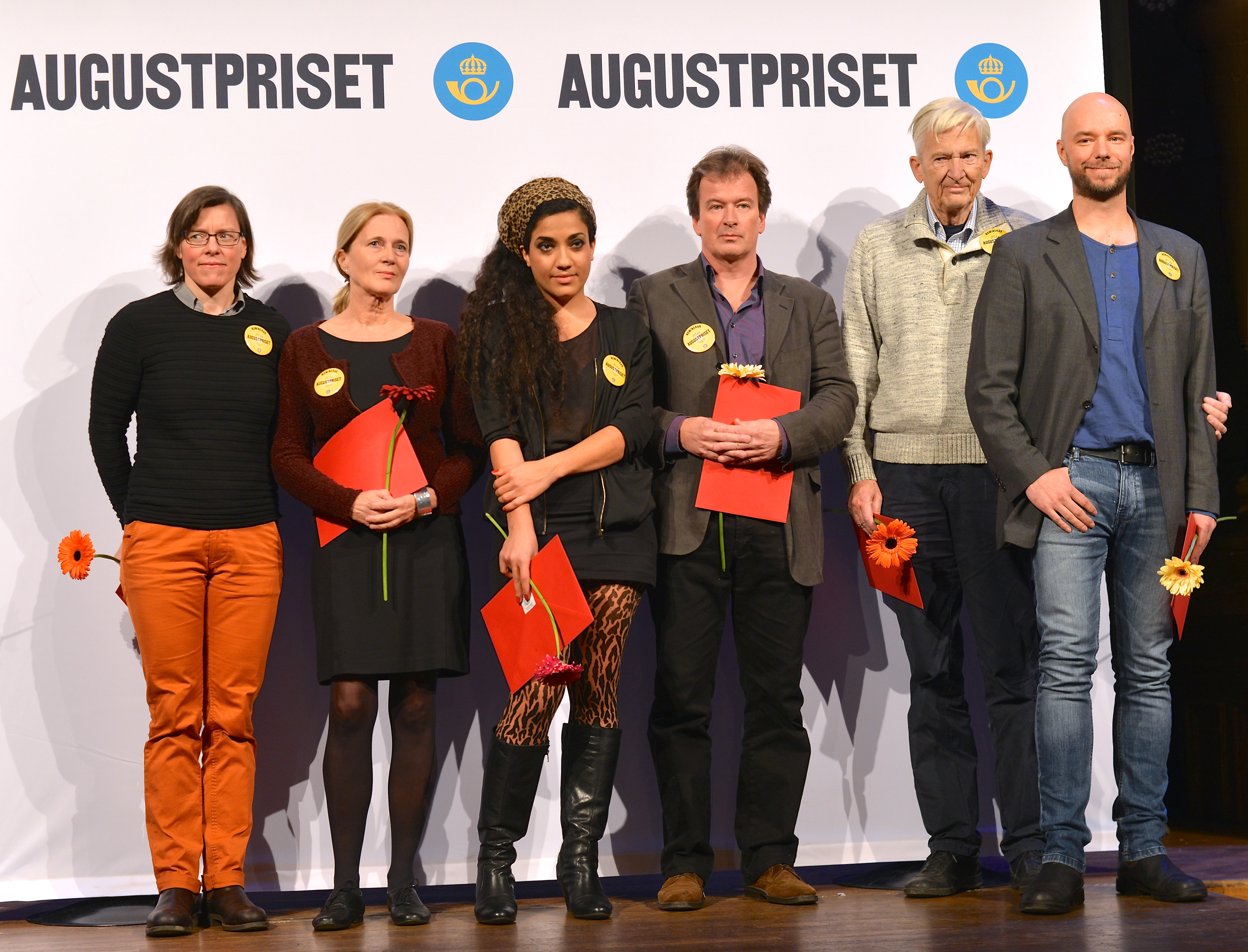 Nominated for the August Prize in the category of fiction in 2013. Lena Andersson, Katarina Frostenson, Athena Farrokhzad, Kjell Westö, Per Olov Enquist, Sven-Olov Karlsson.